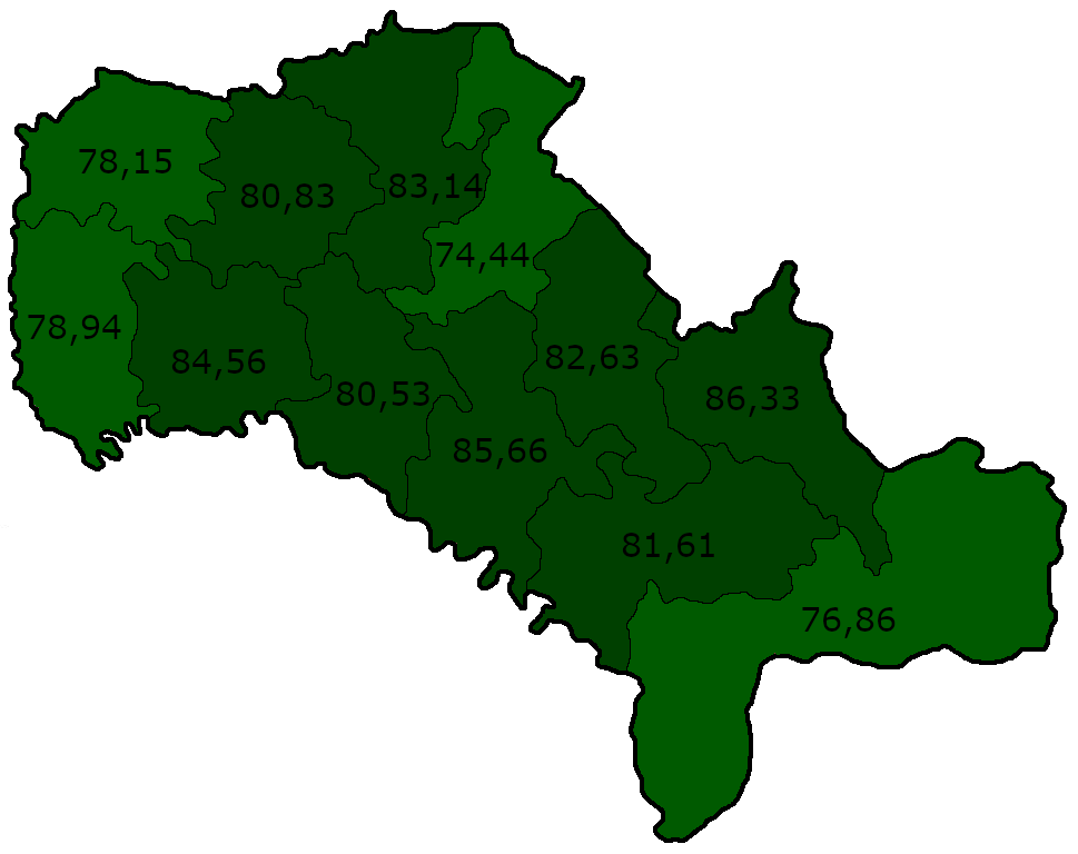 Ukrainian language in Podolian Governorate according to 1897 census.